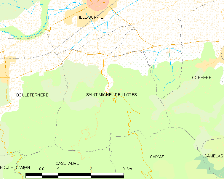 Map of French municipality